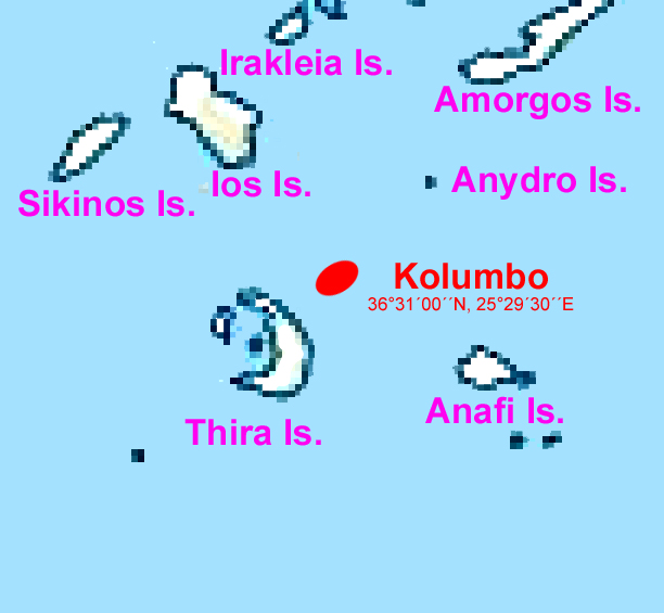 The undersea volcano Kolumbo into the Map of Aegean Sea of Greece.